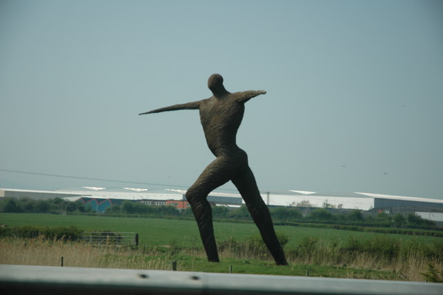 The Willow Man. A prominent landmark beside the M5 just to the south of junction 23. Viewed from the passenger seat of a passing car.